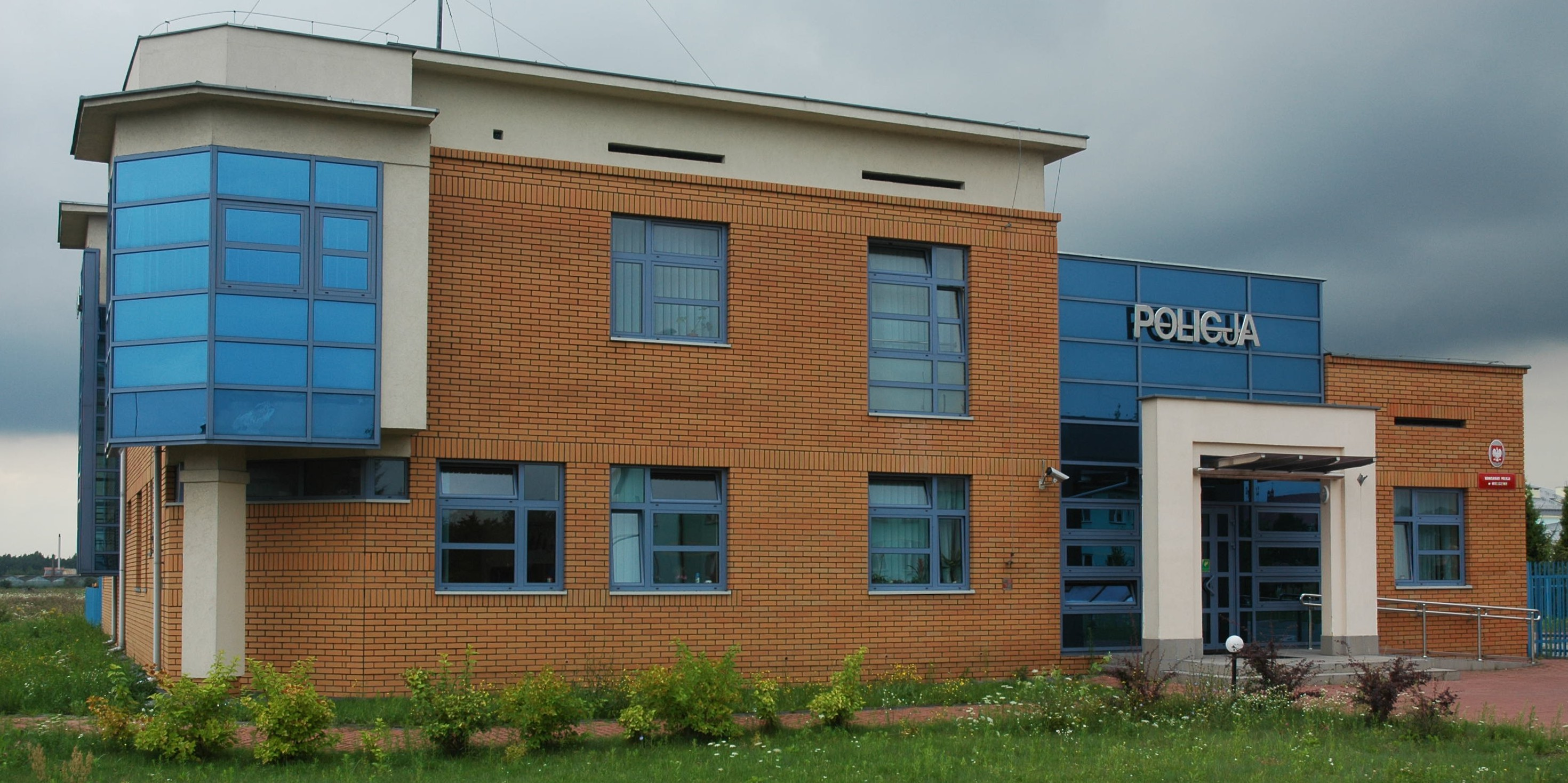 Police Station (Wieliszew)